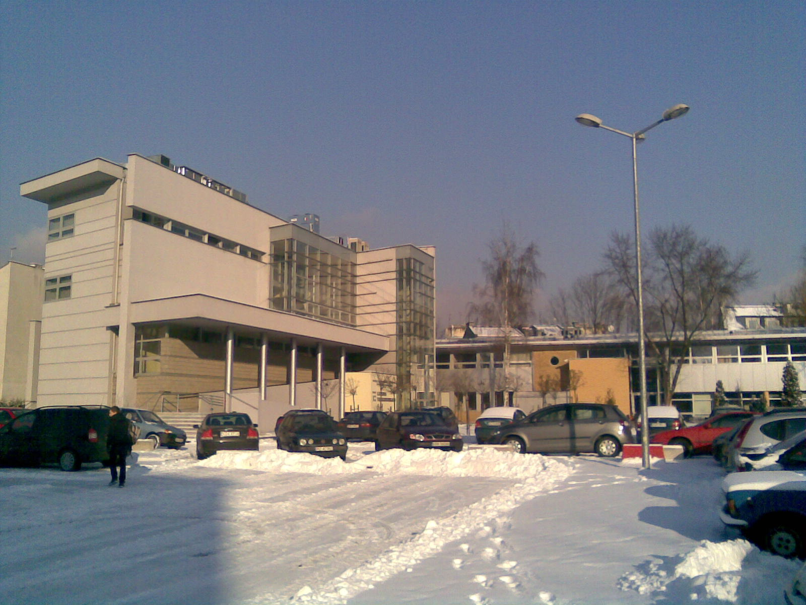 AGH Kraków, Poland, buildings D-5 and D-6